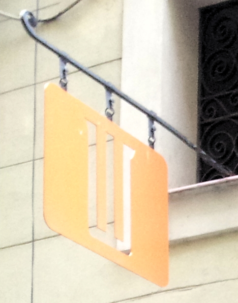 Vilaweb sign, hanging outside the editor's office.